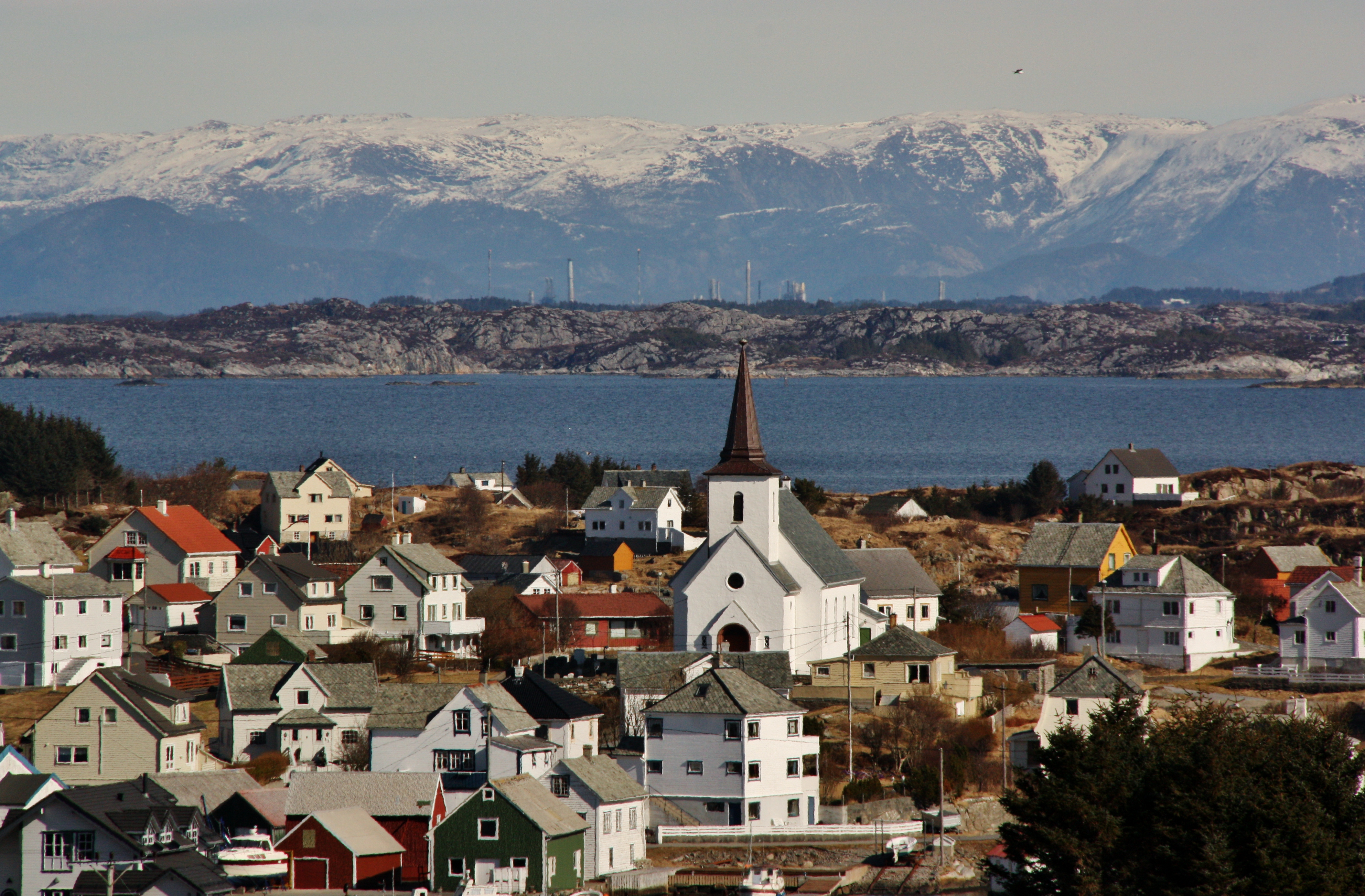 Fedje church from traffic central